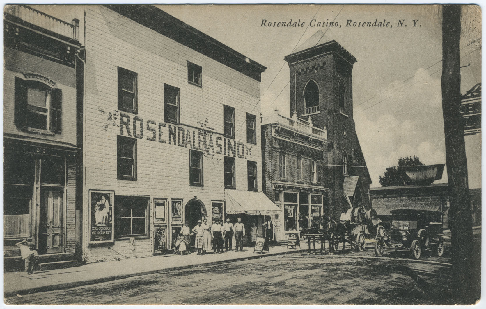 A postcard of the Rosendale Casino in 1919. The casino was later shut down and converted into a movie theater.